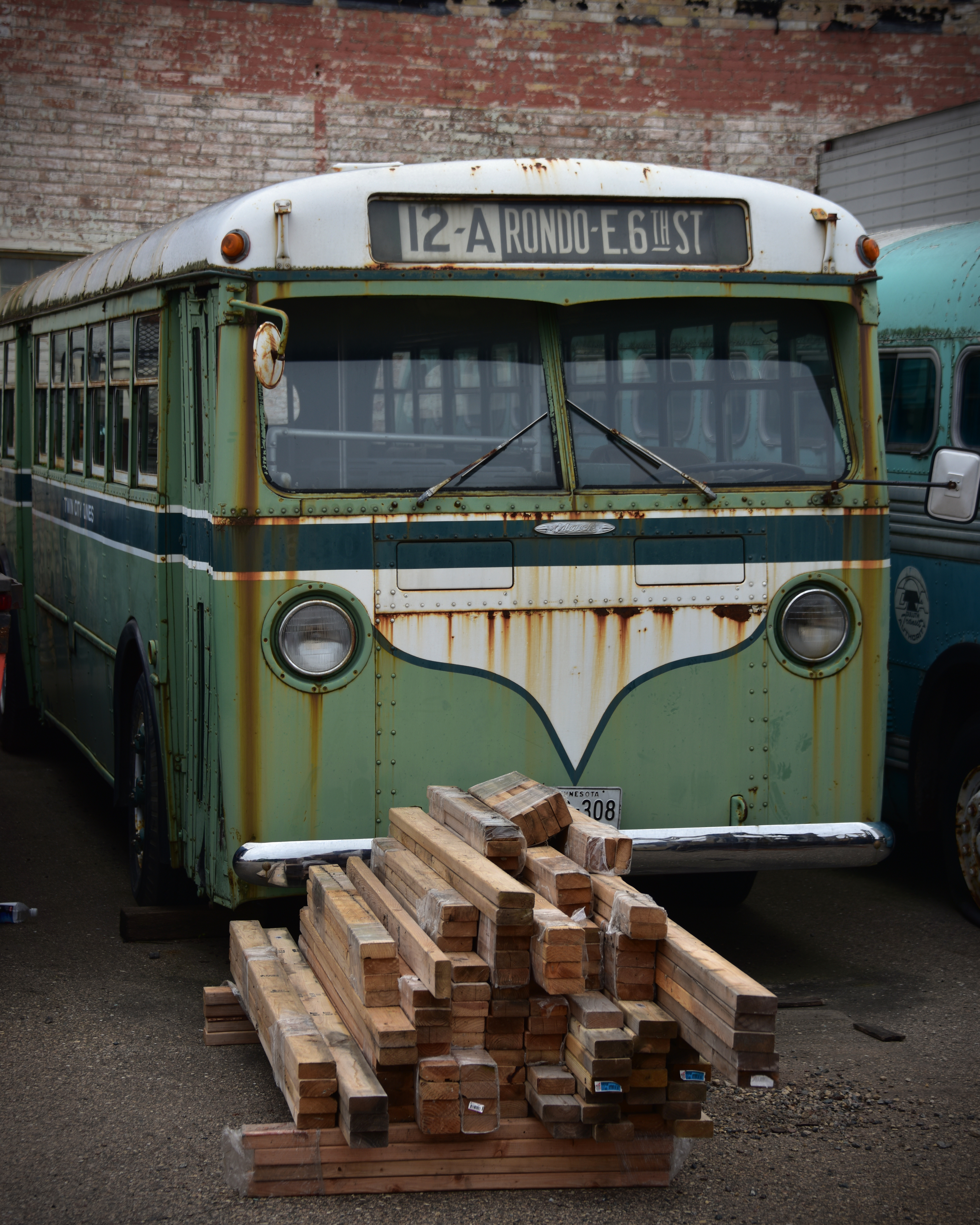 A gasoline-powered Mack bus once owned by TCRT, in cold storage behind the Jackson Street Roundhouse.